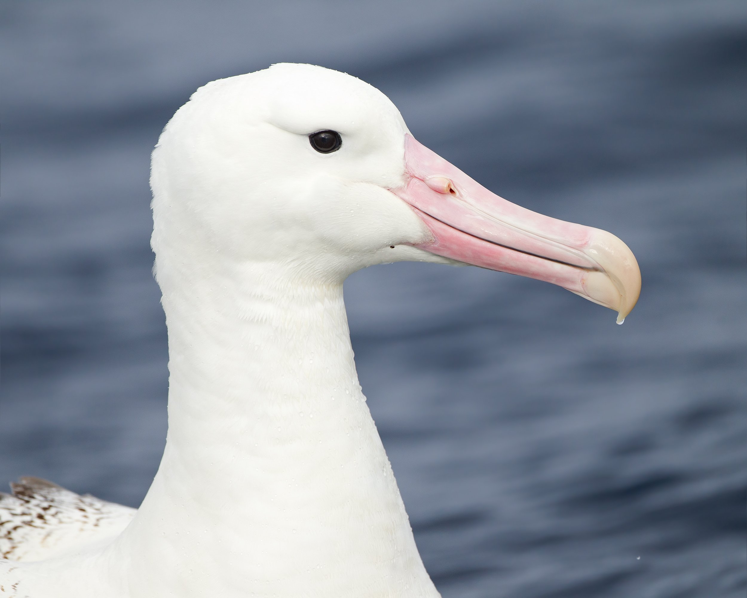 Southern Royal Albatross (Diomedea epomophora) portrait, East of the Tasman Peninsula, Tasmania, Australia